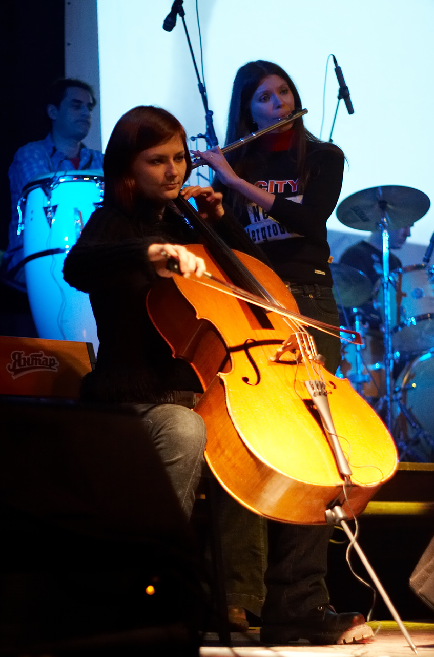 Alexandra Didyk playing with Fleur (25.01.2008)